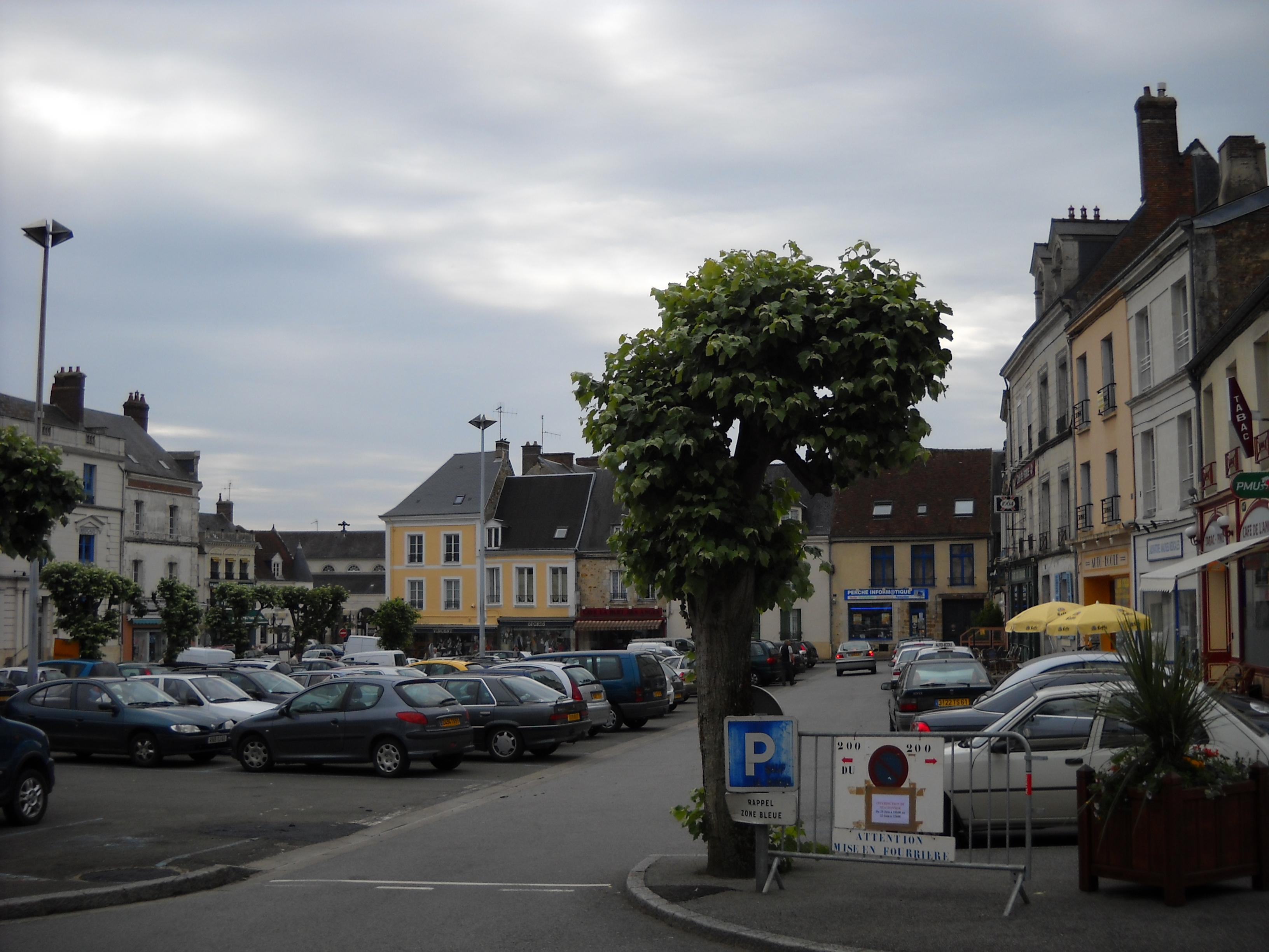 Republic Square, in Mortagne-au-Perche, Orne, France.